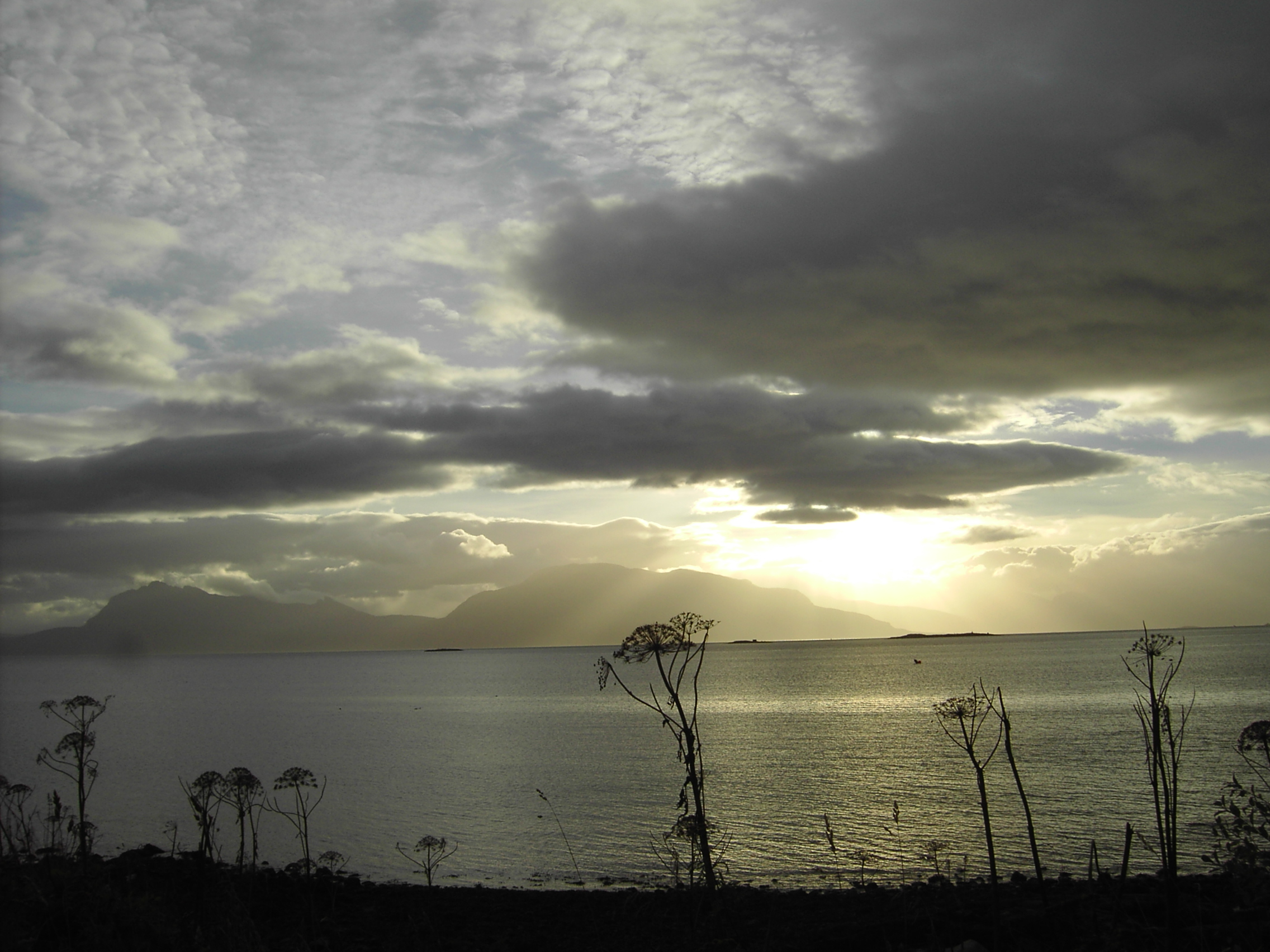 Hogweed (Heracleum mantegazzianum) in Harstad, Norway.